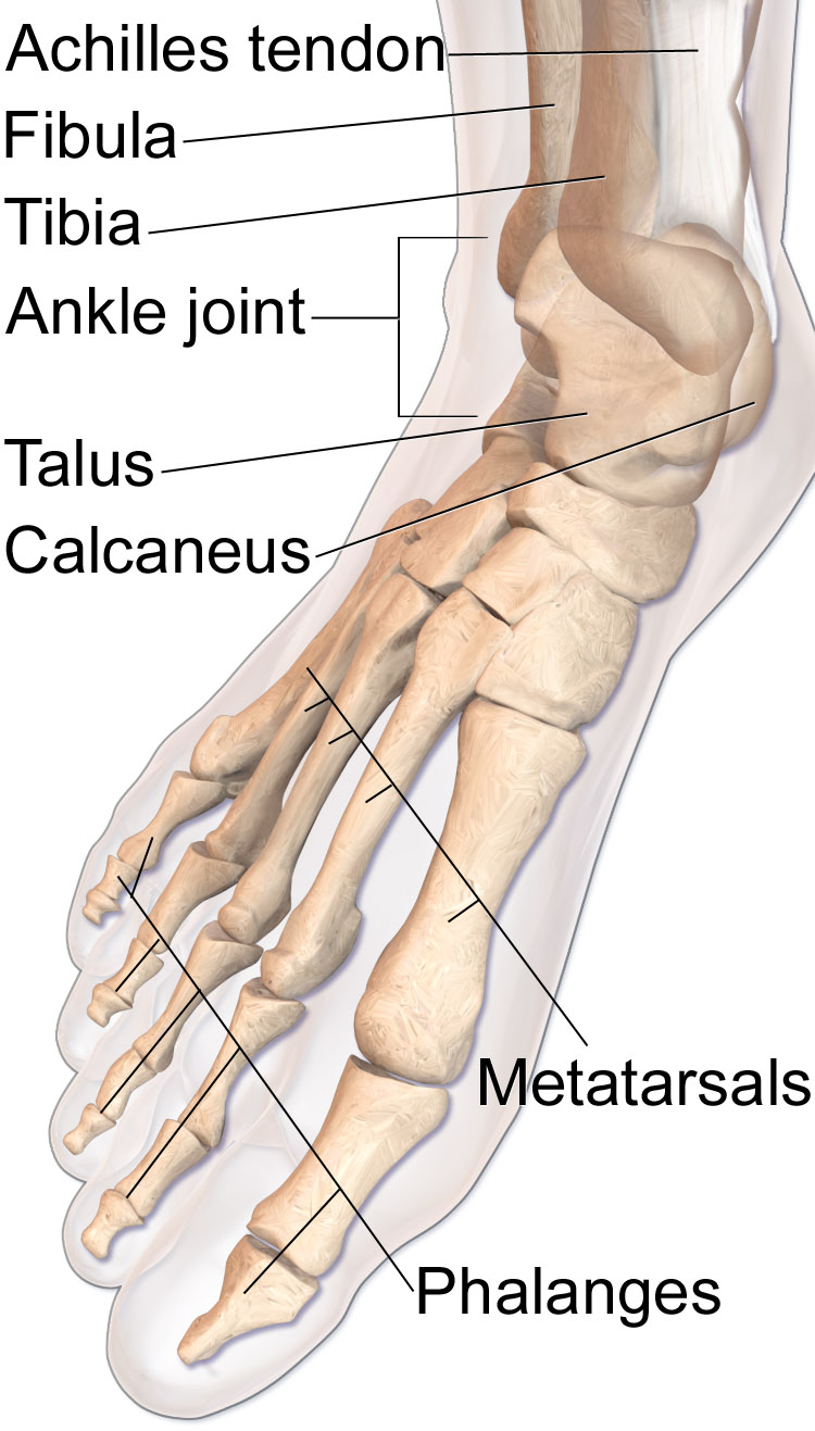 Foot Anatomy. See a full animation of this medical topic.